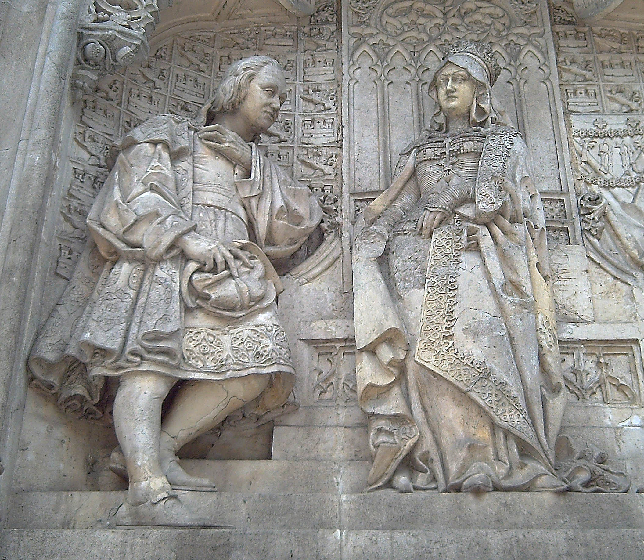 Christopher Colombus and Queen Isabella of Castile. Detail of the monument to Colombus at the Plaza de Colón ("Columbus Square") in Madrid (Spain), built from 1881 to 1885.